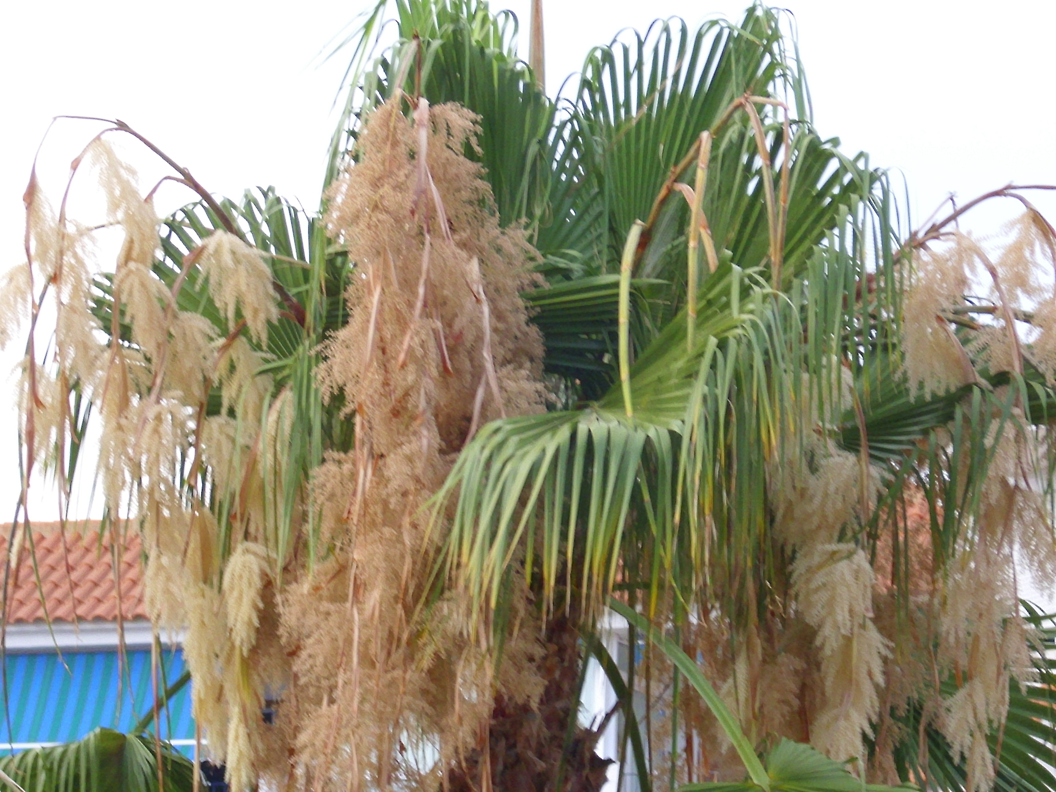 Washingtonia filifera close up, Torrelamata, Torrevieja, Alicante, Spain